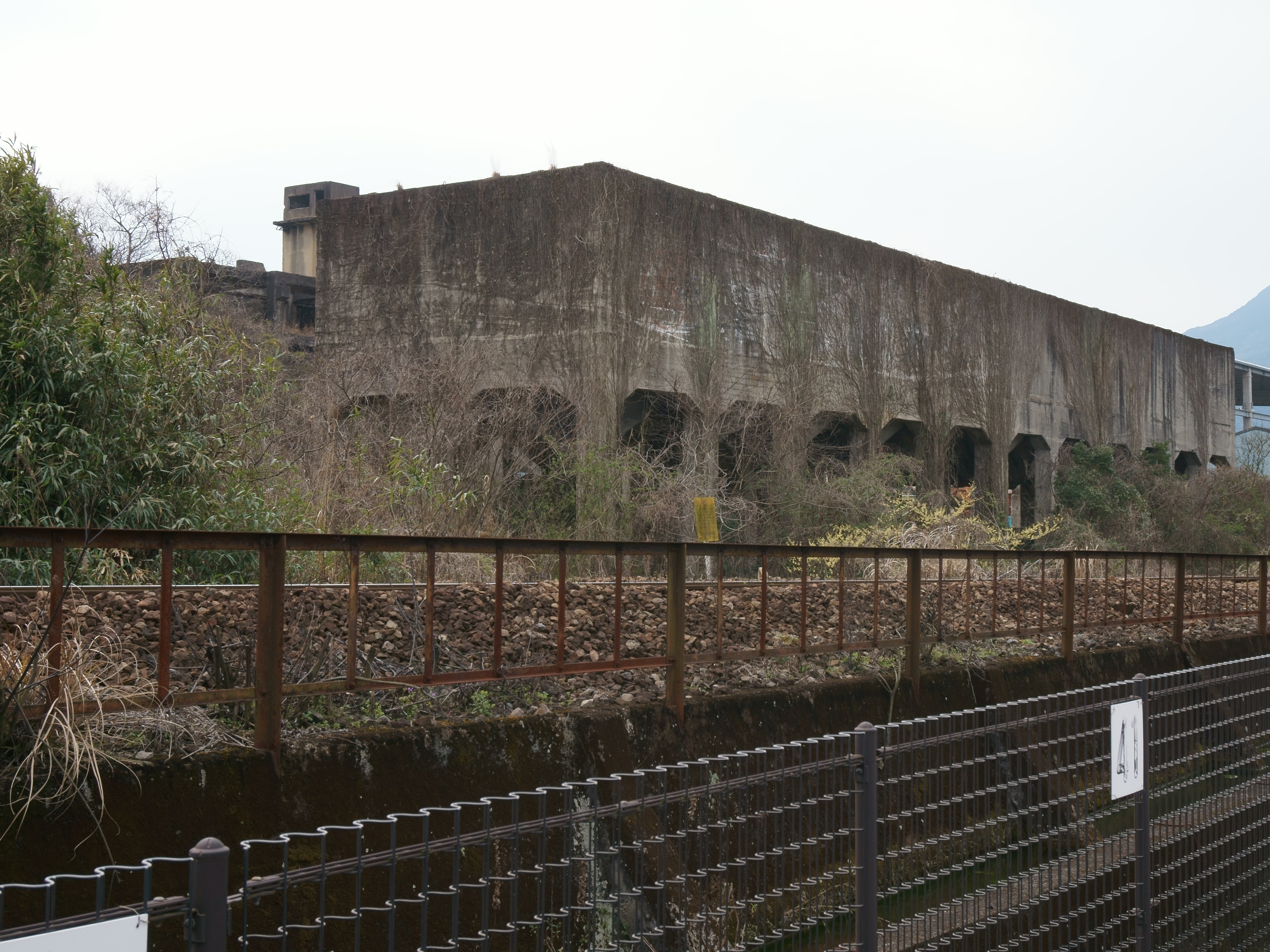 A coal loading hopper, made from concrete, used until 1950s for former Mitsubishi Kogayama Coal Mine, at east of Taku Station.